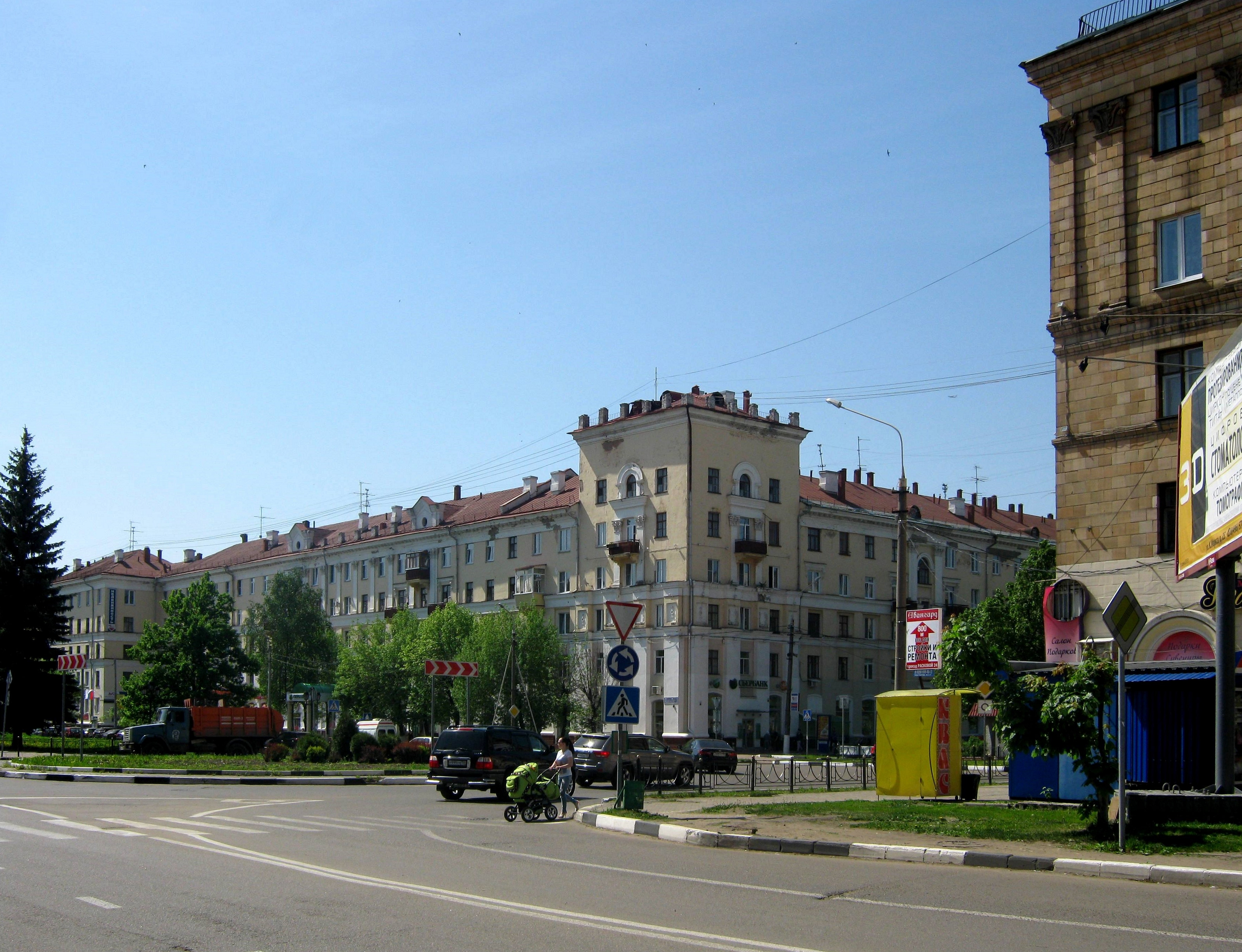 Проспект Ленина (Электросталь)